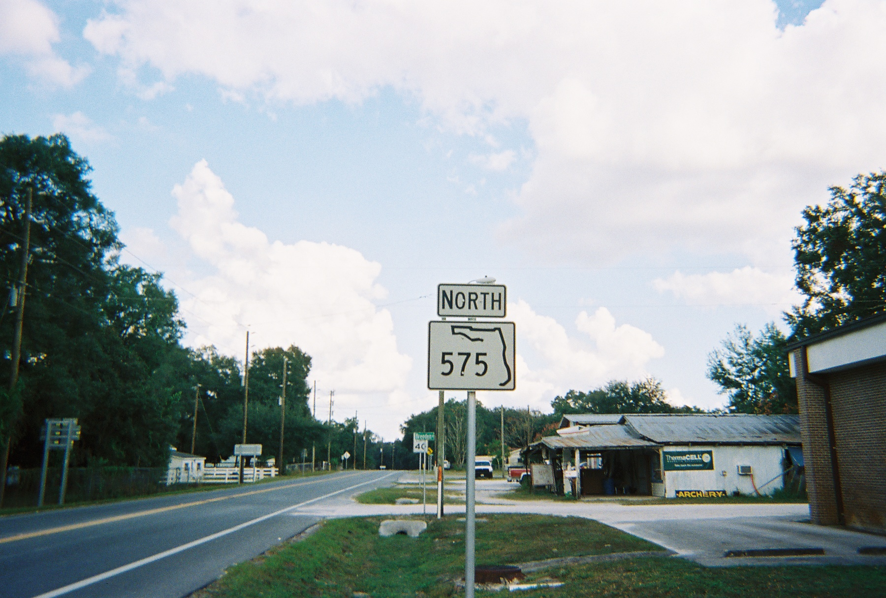 The first reassurance sign for northbound Florida State Road 575, in Lacoochee, Florida. South of this, the road is Pasco County Road 575 and north of the Hernando County line, it's Hernando County Road 575. It really should be a state road from US 98 in Trilby to Florida SR 50 in Ridge Manor, IMO.